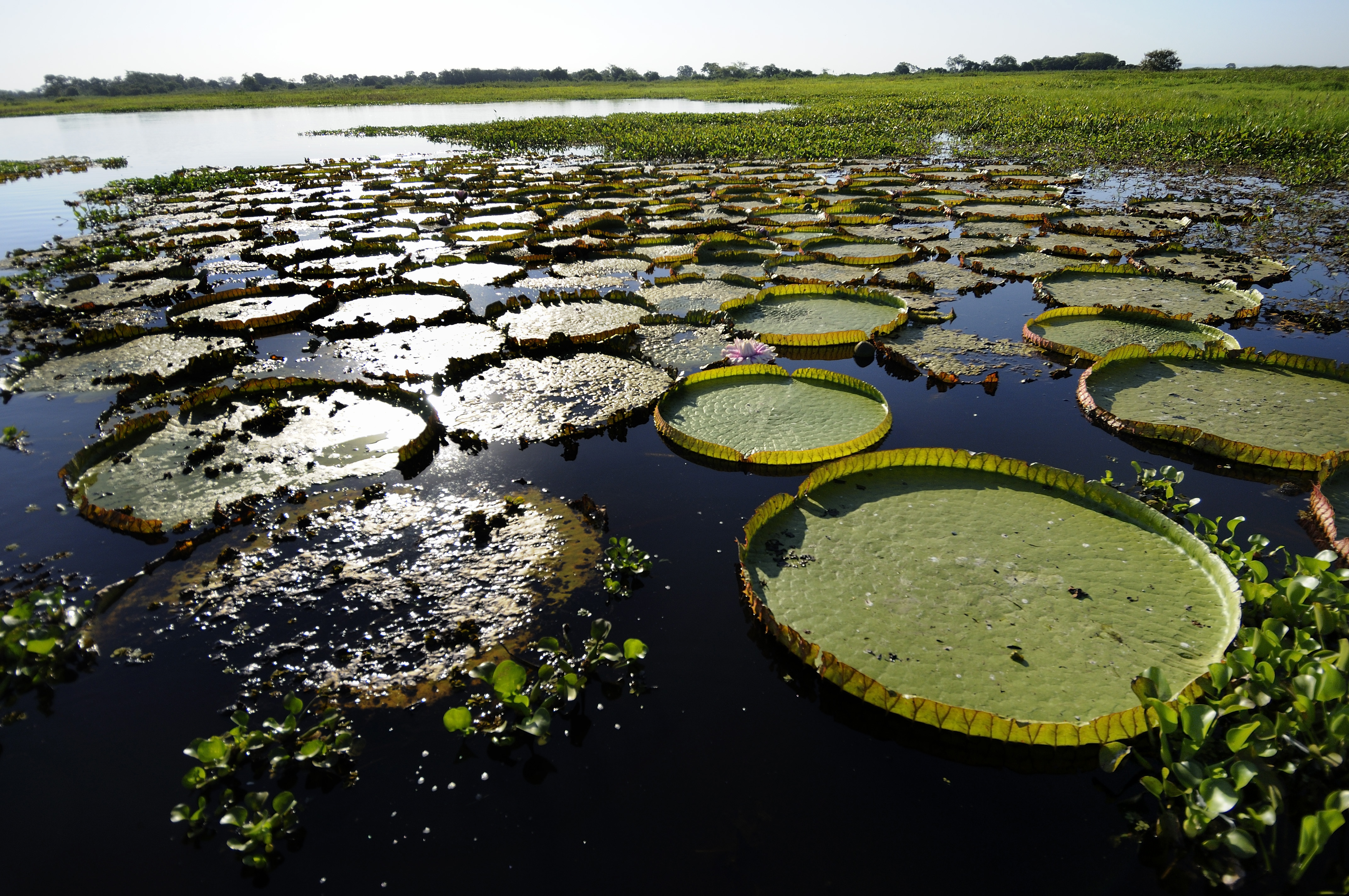 120807 Beautiful water lily on the Paraguay River, the northern Pantanal, Brazil. Here, there may be anacondas.Foto: Jan Fleischmann This is an image of the Biosphere Reserve: Lake Vänern Archipelago